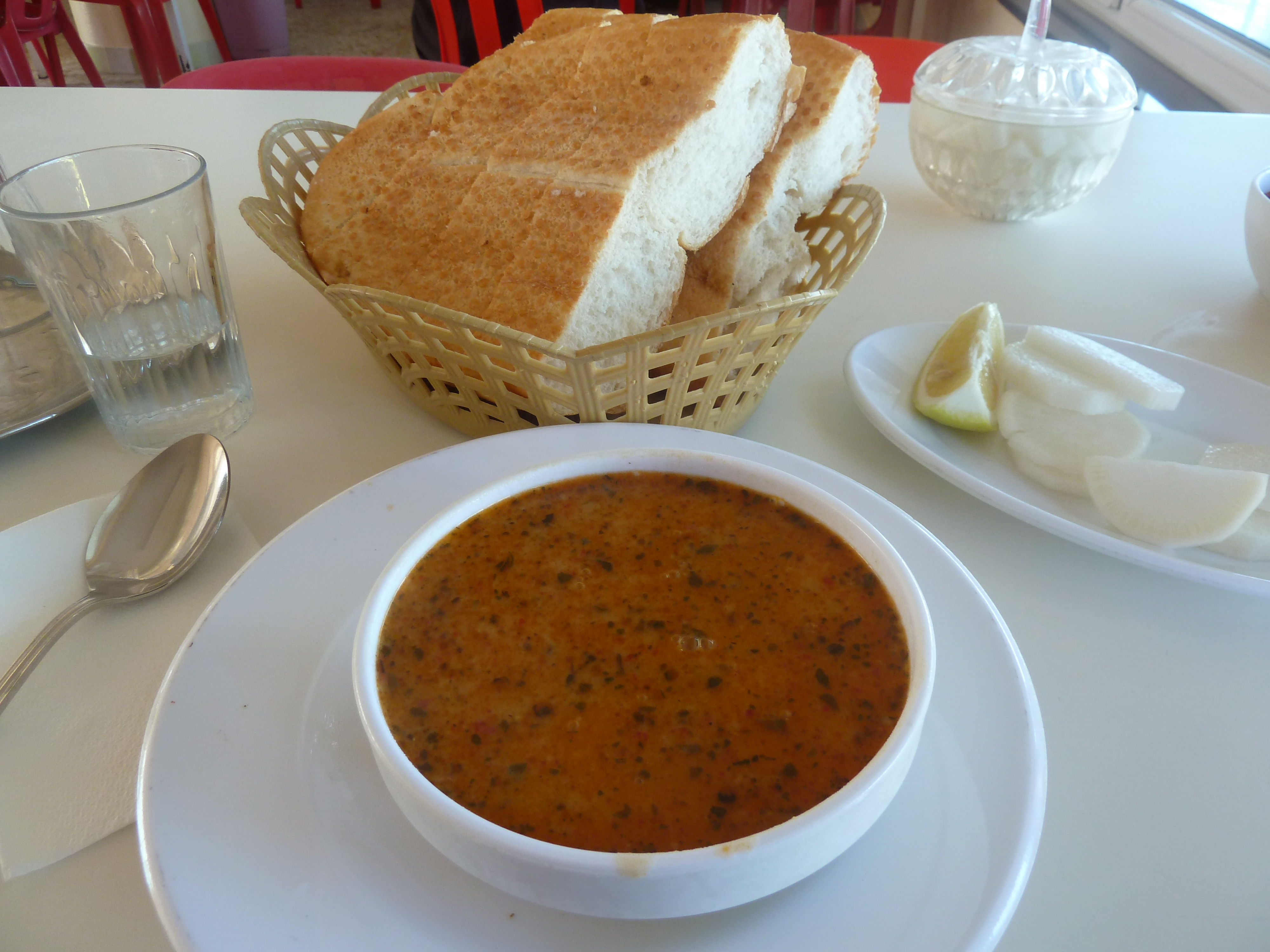 Ezogelin soup, bread, and tea at a truck stop about 30 kilometers (20 miles) west of Gaziantep, Türkiye.